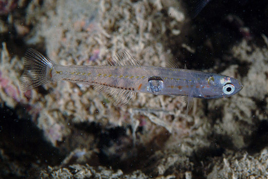 Aphya minuta photographed on Tuscany coast (Italy). Photo by Stefano Guerrieri